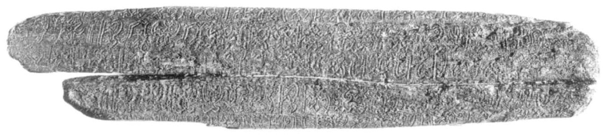 One of 26 rongorongo tablets that may be authentic.